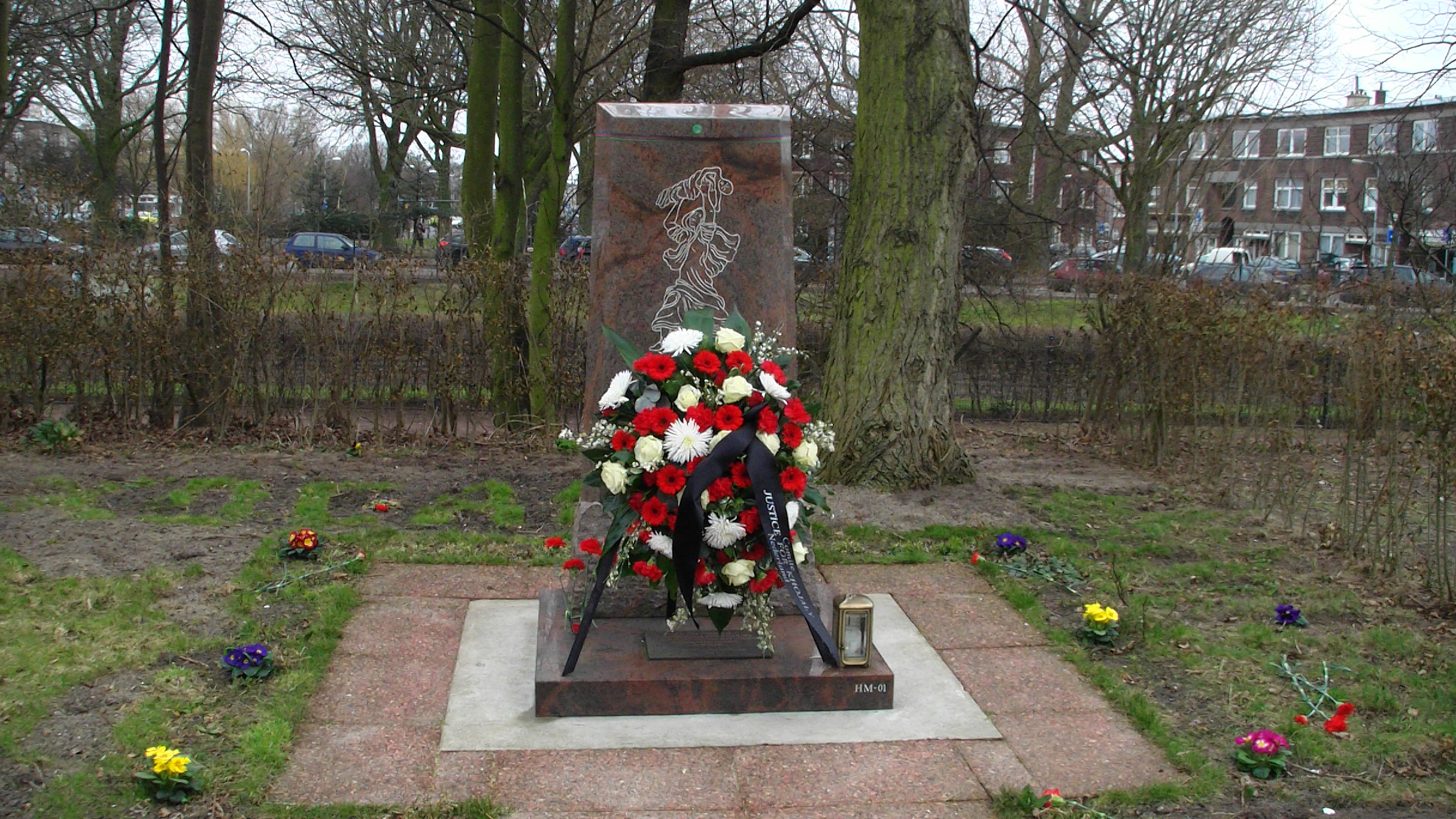 20th remembrance day of Khojaly Genocide in The Hague, Netherlands.